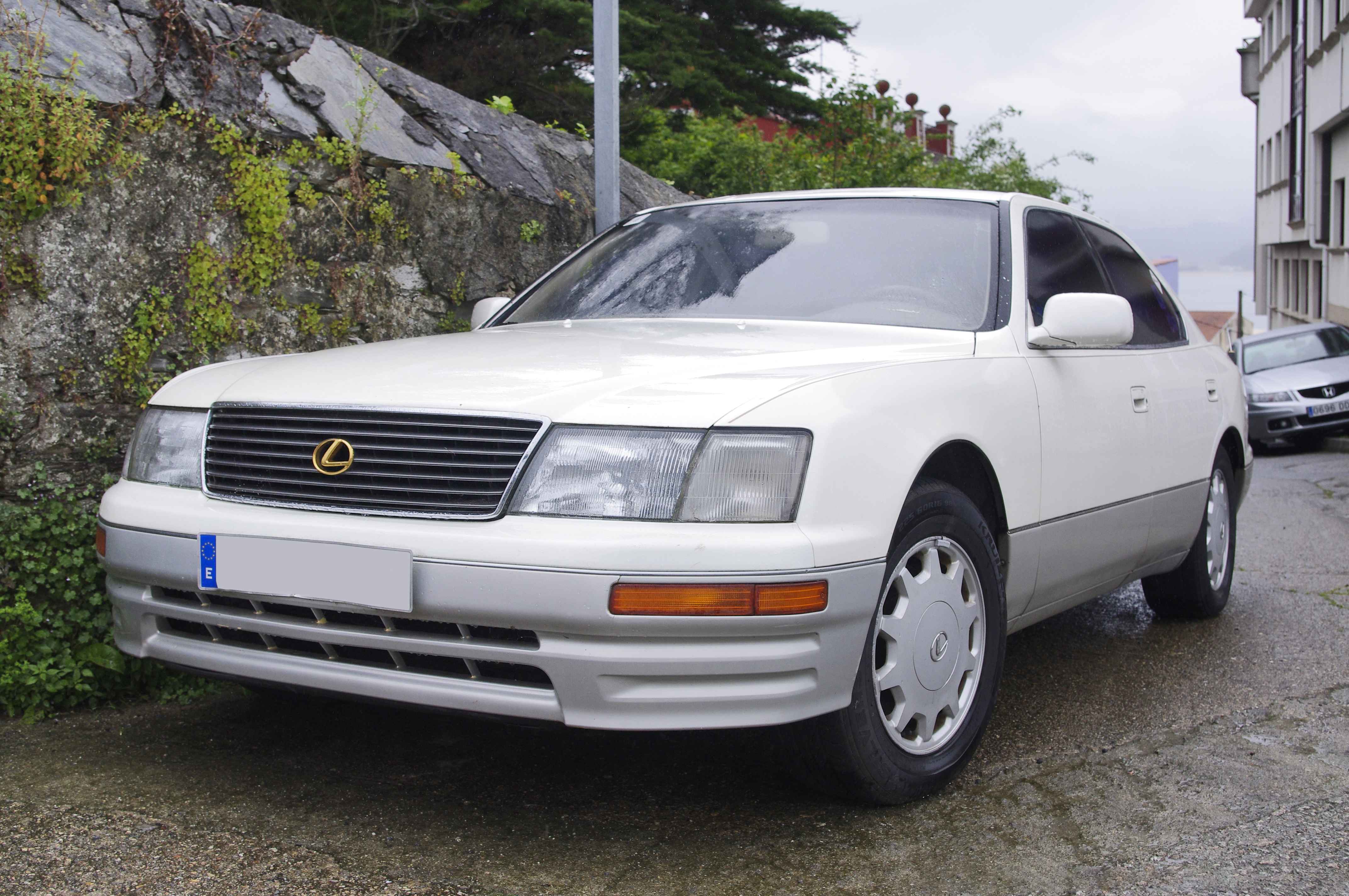 Gotta love the golden badges! Brought from Brookhaven, (Suffolk ) (New York).